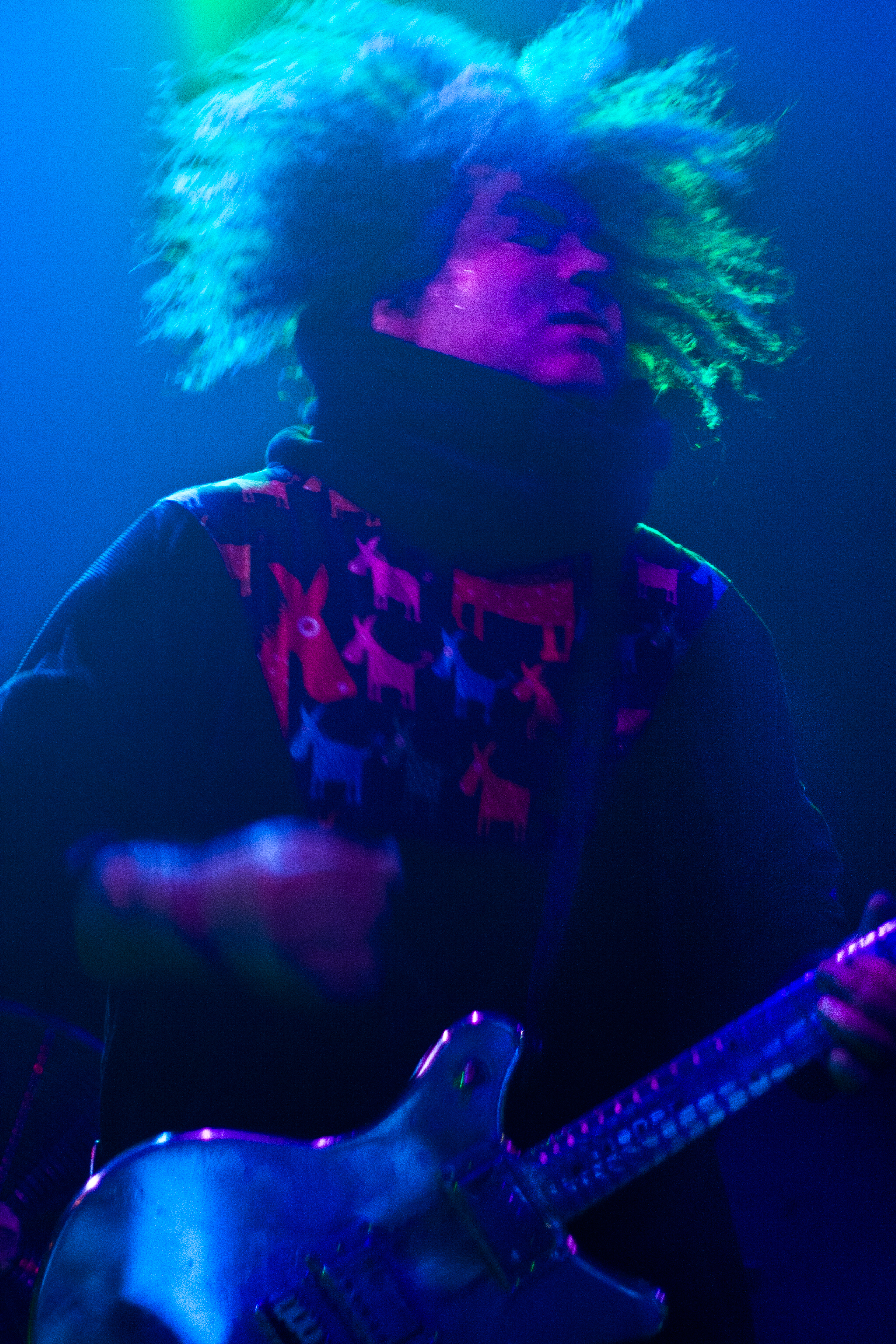 On September 19th, 2010 at Slim's, San Francisco, California.